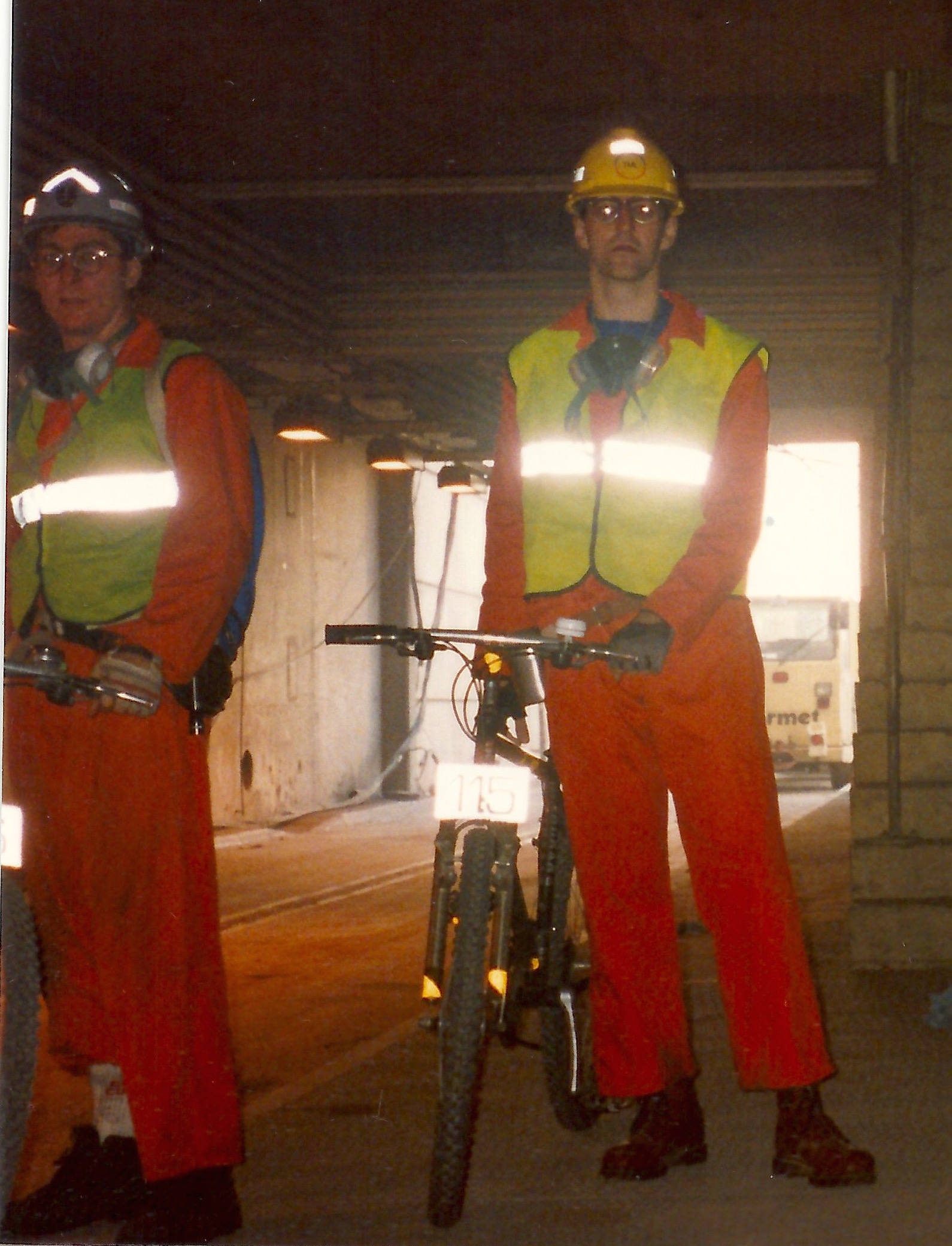 Wally Michalski and Mike Turner at UK portal